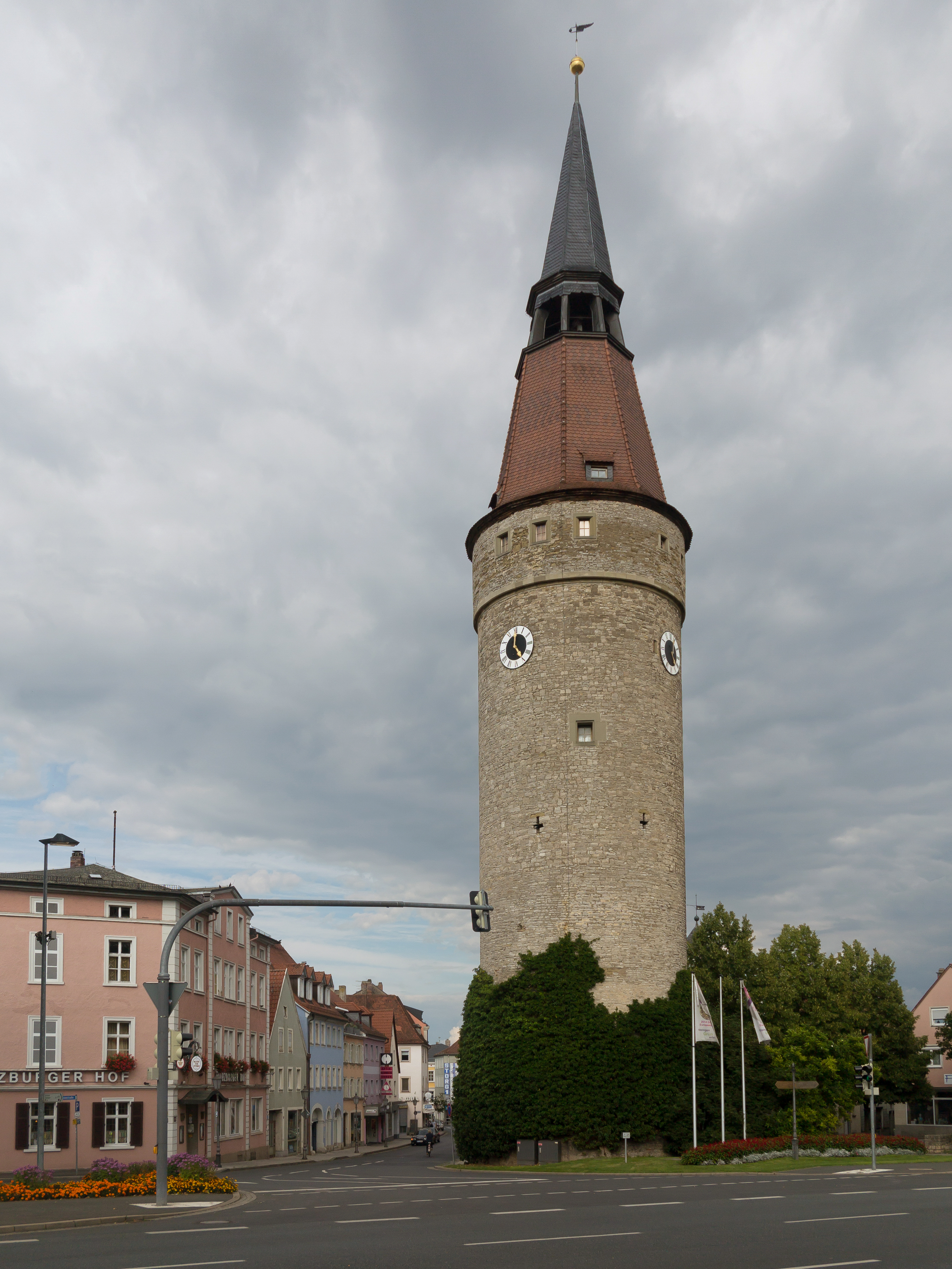 Kitzingen, tower: der FalterturmThis is a photograph of an architectural monument.